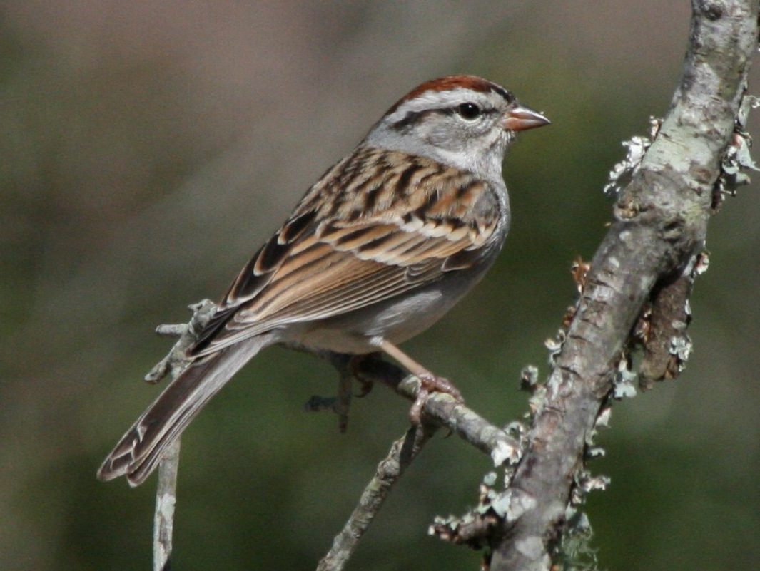 Chipping Sparrow (Spizella passerina) - Ash, North Carolina